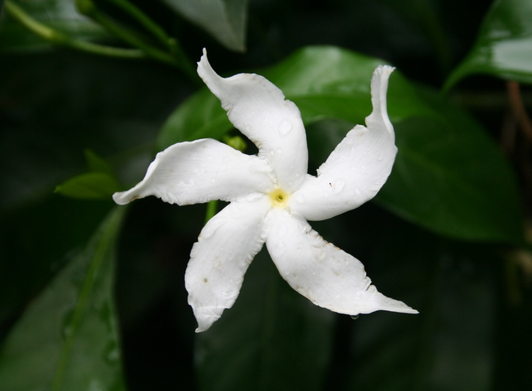 Nandyar Vattam